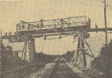 Construction of a bridge over the Norte Railway, in Portugal. This bridge was parte of the Aveiro Mar branch line, that ran from the Aveiro train station to the Aveiro Lagoon. This photograph was published on the Gazeta dos Caminhos de Ferro magazine no. 1082, of the 16th January 1933, and scanned by the Hemeroteca Municipal de Lisboa.